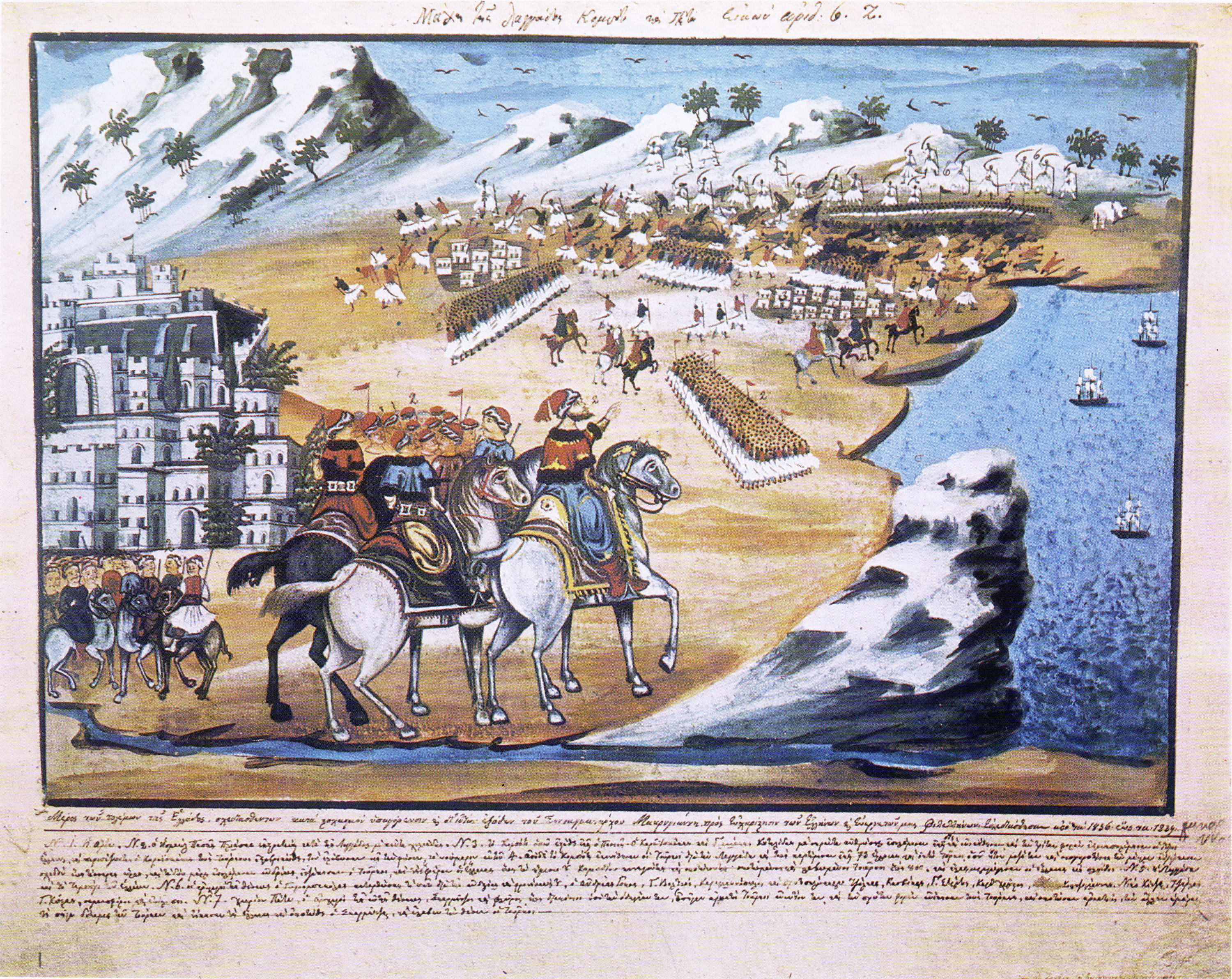 Scene from the Greek War of Independence. Painting by Panagiotis Zografos, under guidance of Yannis Makriyannis.